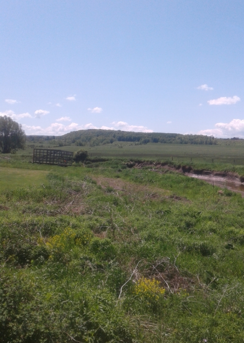 Budd Hill from West Ames Road. Located in Montgomery County, New York. Taken May 2019